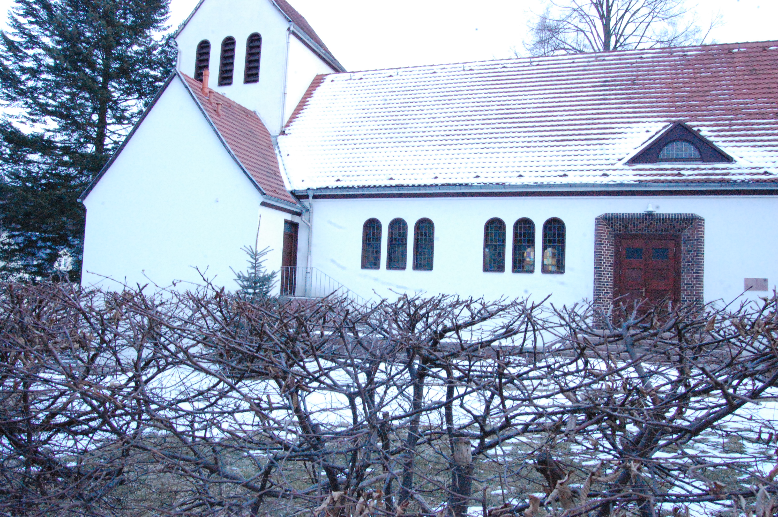 Catholic church, Hainichen (Saxony/Germany)